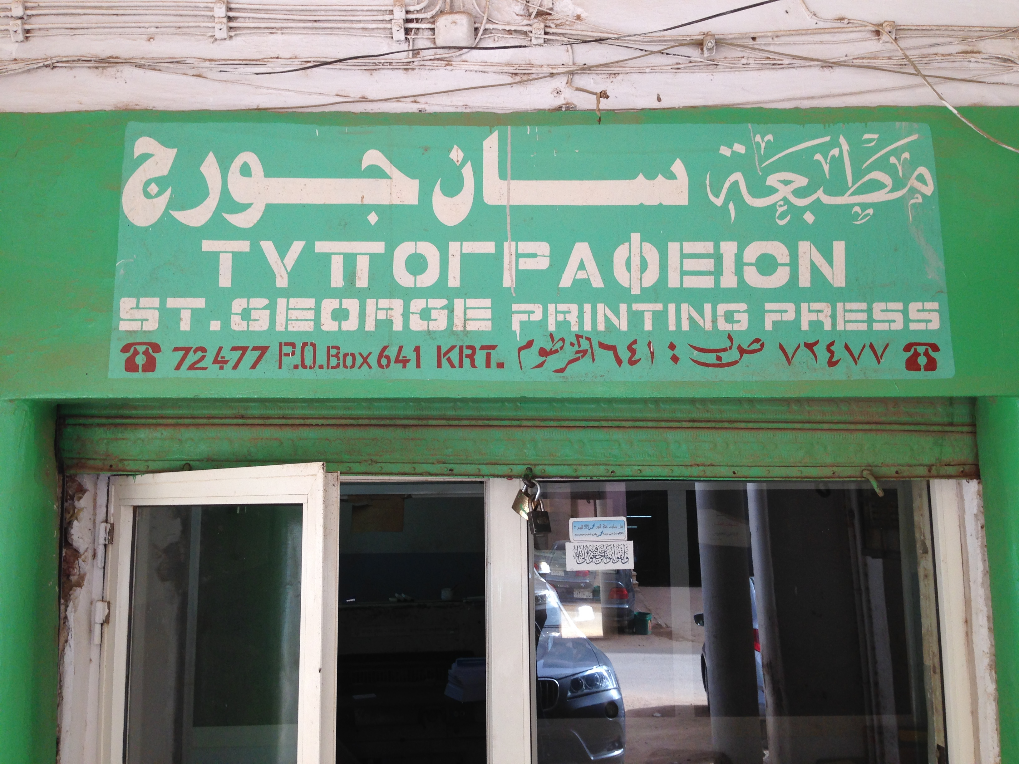 TYPOGRAPHEION St. George Printing Press in Zubeir Pasha Street, Khartoum, Sudan